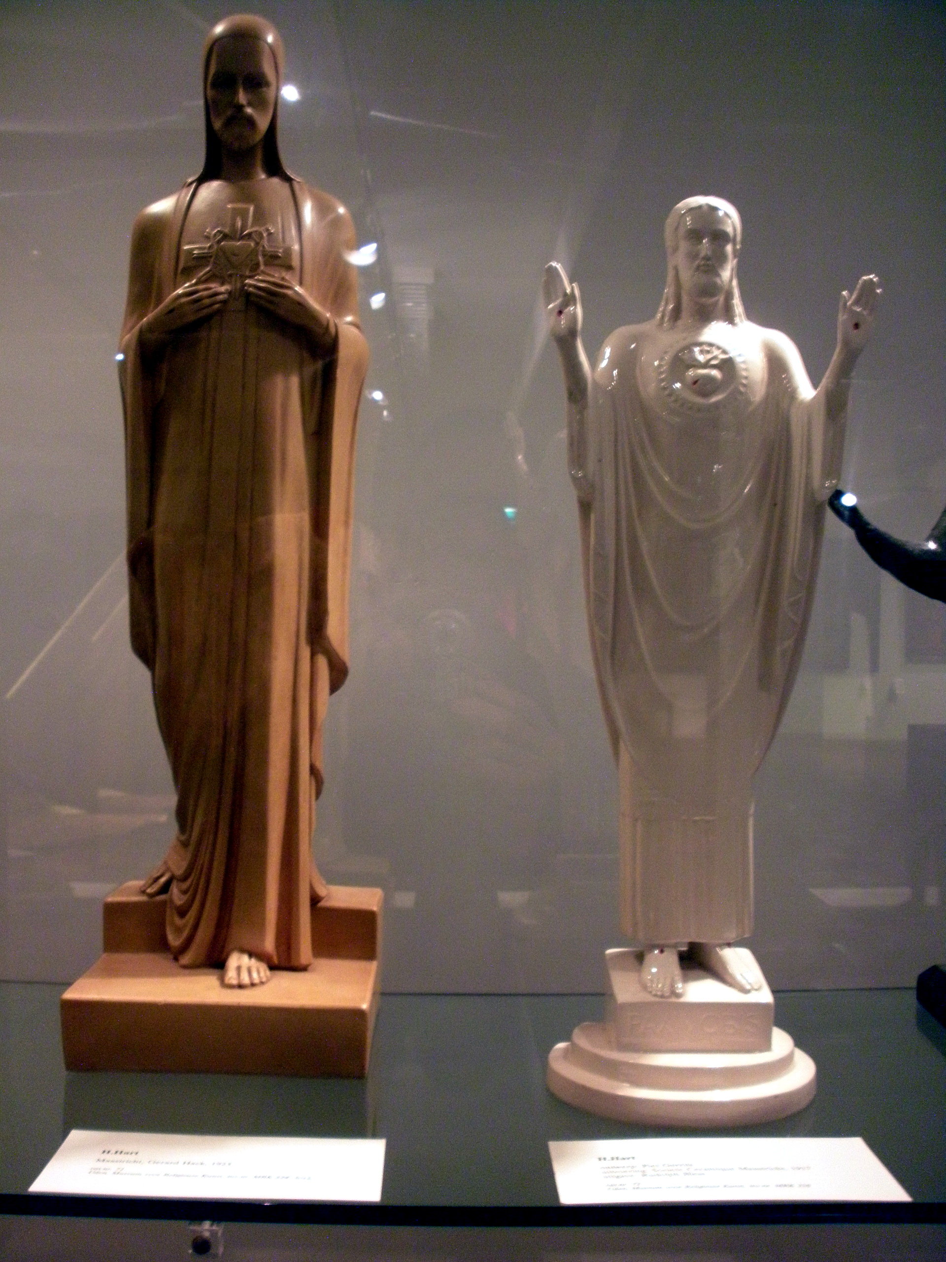 Uden, the Netherlands, Museum of Religious Art. Small ceramic statues of the Sacred Heart of Jesus Christ. Left: Gerard Hack, 1923. Right: Piet Gerrits for Société Céramique in Maastricht, 1917.